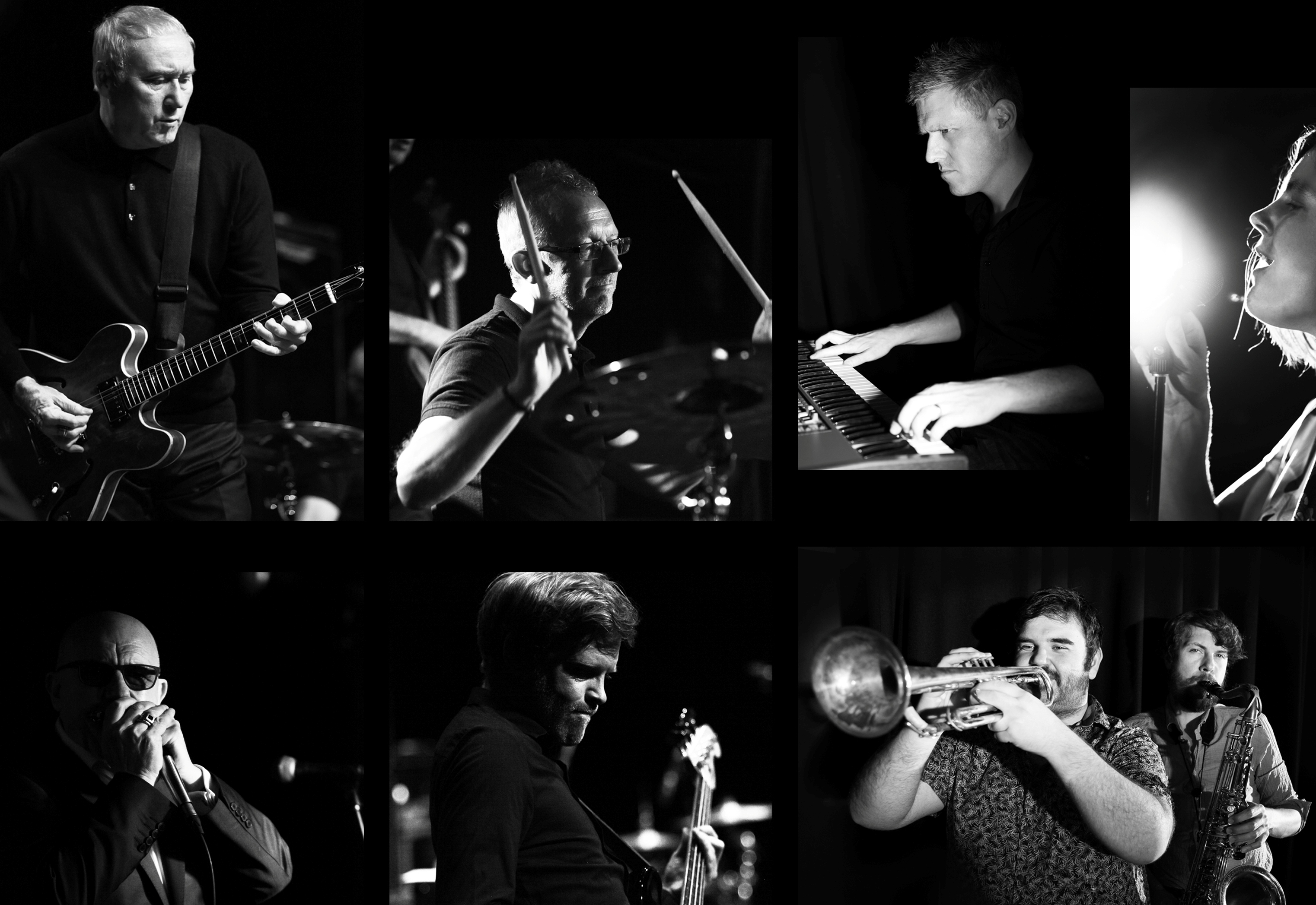 The 2017 line up of Nine Below Zero, Dennis Greaves, Mickey Burkey, Ben Willis, Andrew Noble, Charlie Austen, Chris Rand and Paul Jordanous.